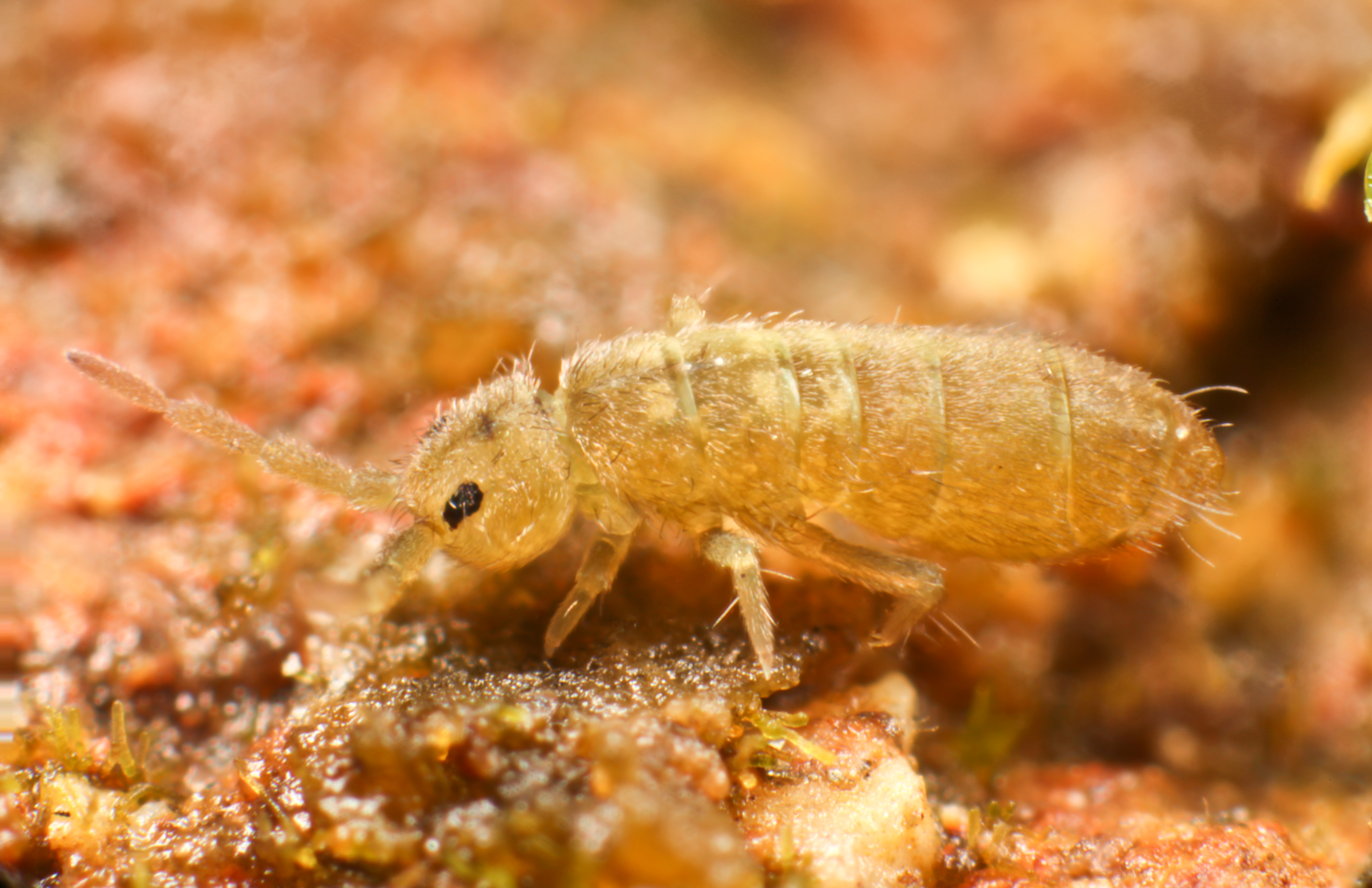 Desoria olivacea springtail from the UK.